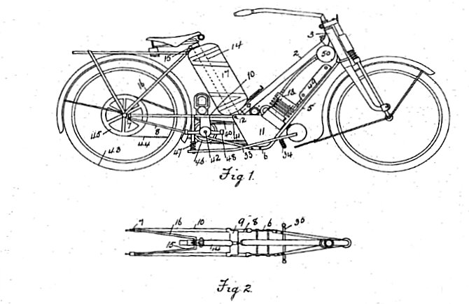 The image of the general layout of the Scott motorcycle taken from the patent GB190816564 (1908) Other information The Scott motorcycle layout was novel at the time and has many features used today. "The present invention relates to improvements in open frame motor cycles, and has for its object to provide a motor cycle with a very low centre of gravity." The central fuel tank mounted low down is something found on the latest racing motorcycles, the step through frame is found on scooters and commuter machines, the water-cooled two stroke twin cylinder engine (subject to a separate patent) was smooth and powerful, and the bike won hill-climbs and races to the point where the governing body had to handicap it to allow other makes a chance. Unfortunately Wikipedia doesn't have a tag for GB patents, though it does have one for US patents "PD-US-patent". This needs to be extended to other countries. From the British Library : "A patent is a contract between an inventor and a state. The inventor puts a detailed description of his invention into the public domain and in return the state grants him the right to prevent anyone else exploiting his invention for a limited period of time." So if not a generic PD-patent, then a PD-GB-patent tag is required ?